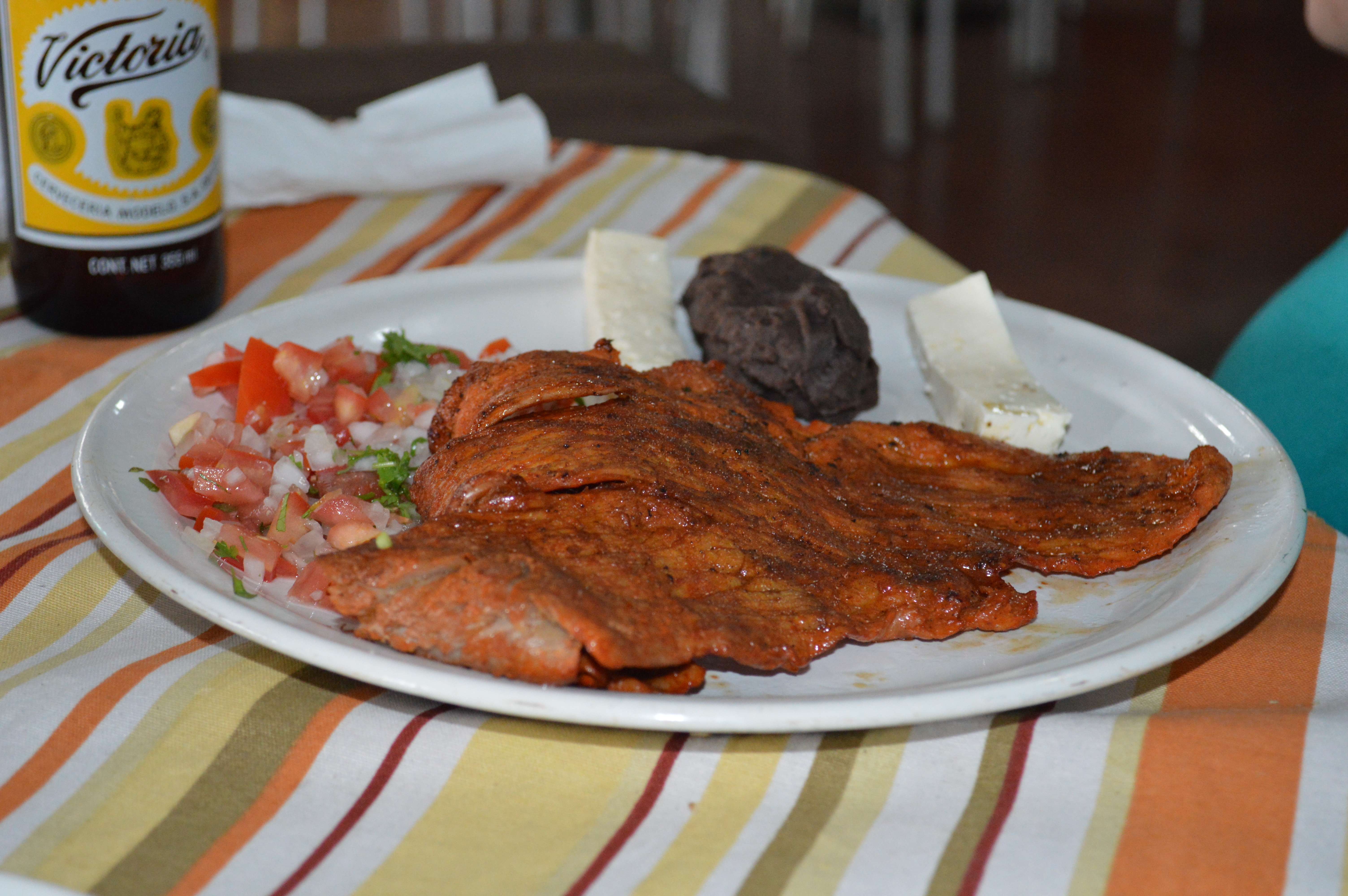 A mild chilí pepper marinated pork dish called carne de Chinameca at a restaurant in Catemaco, Veracruz, Mexico